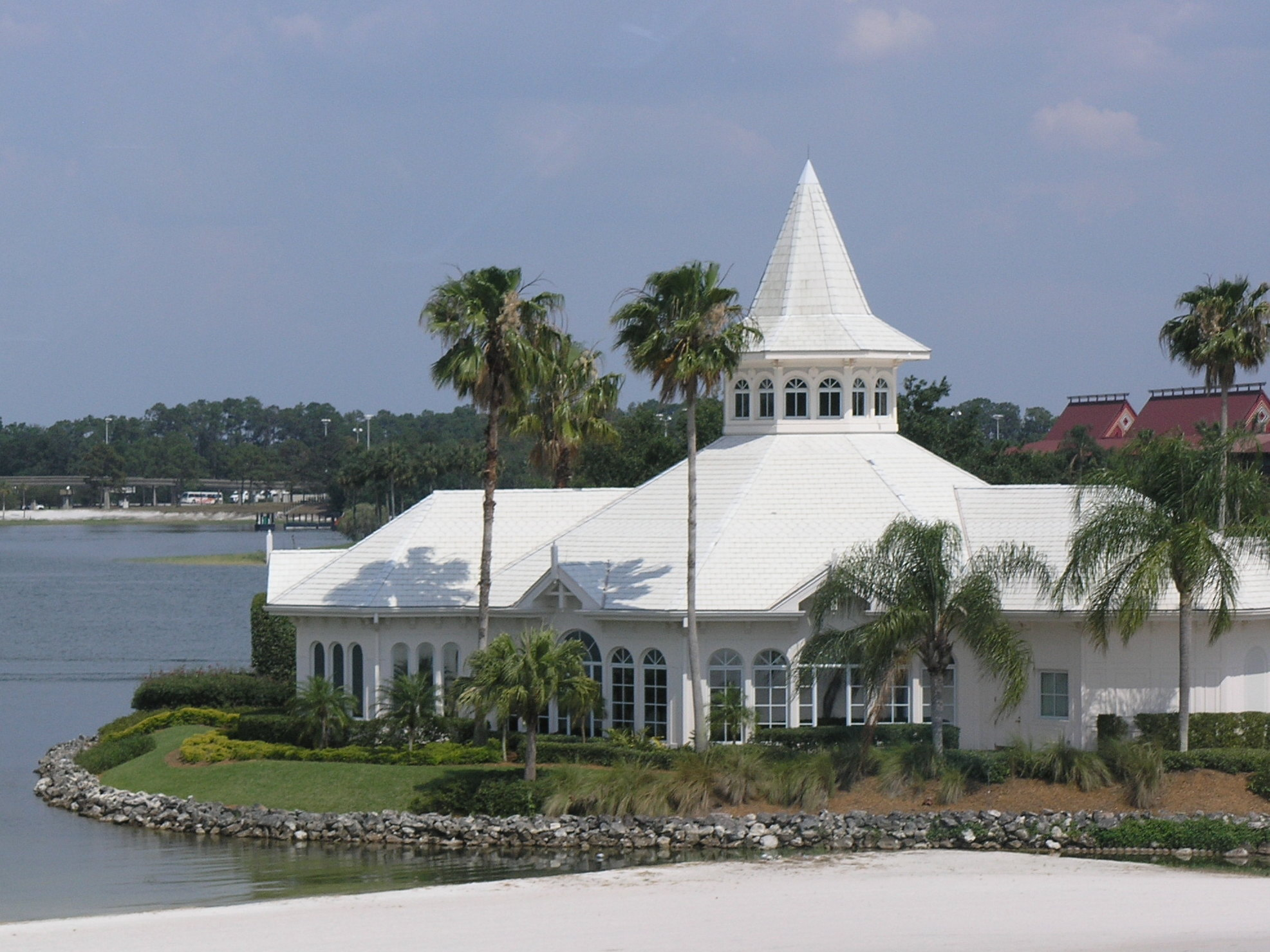 WEdding Pavelion from Mono Rail